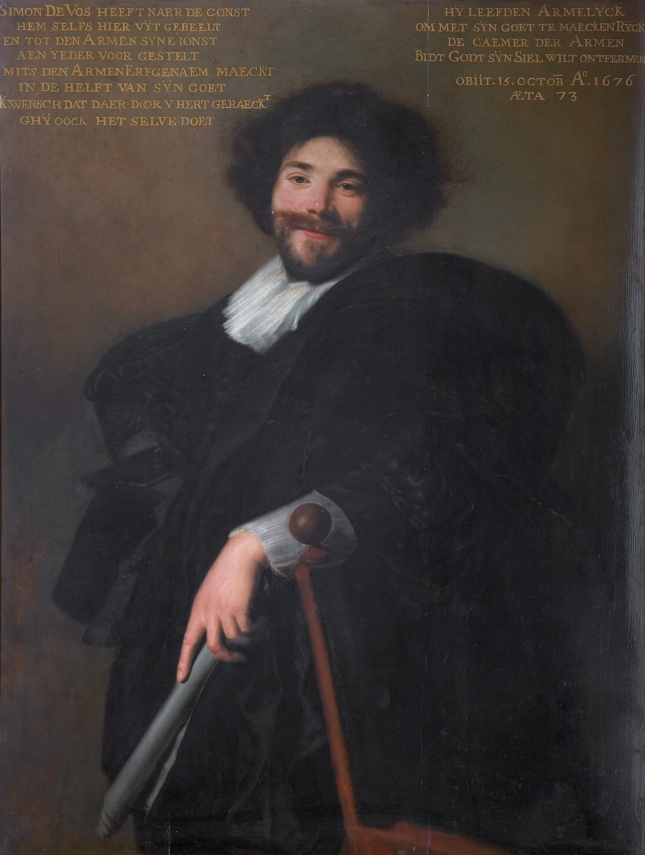 Simon de Vos (1603-1676)